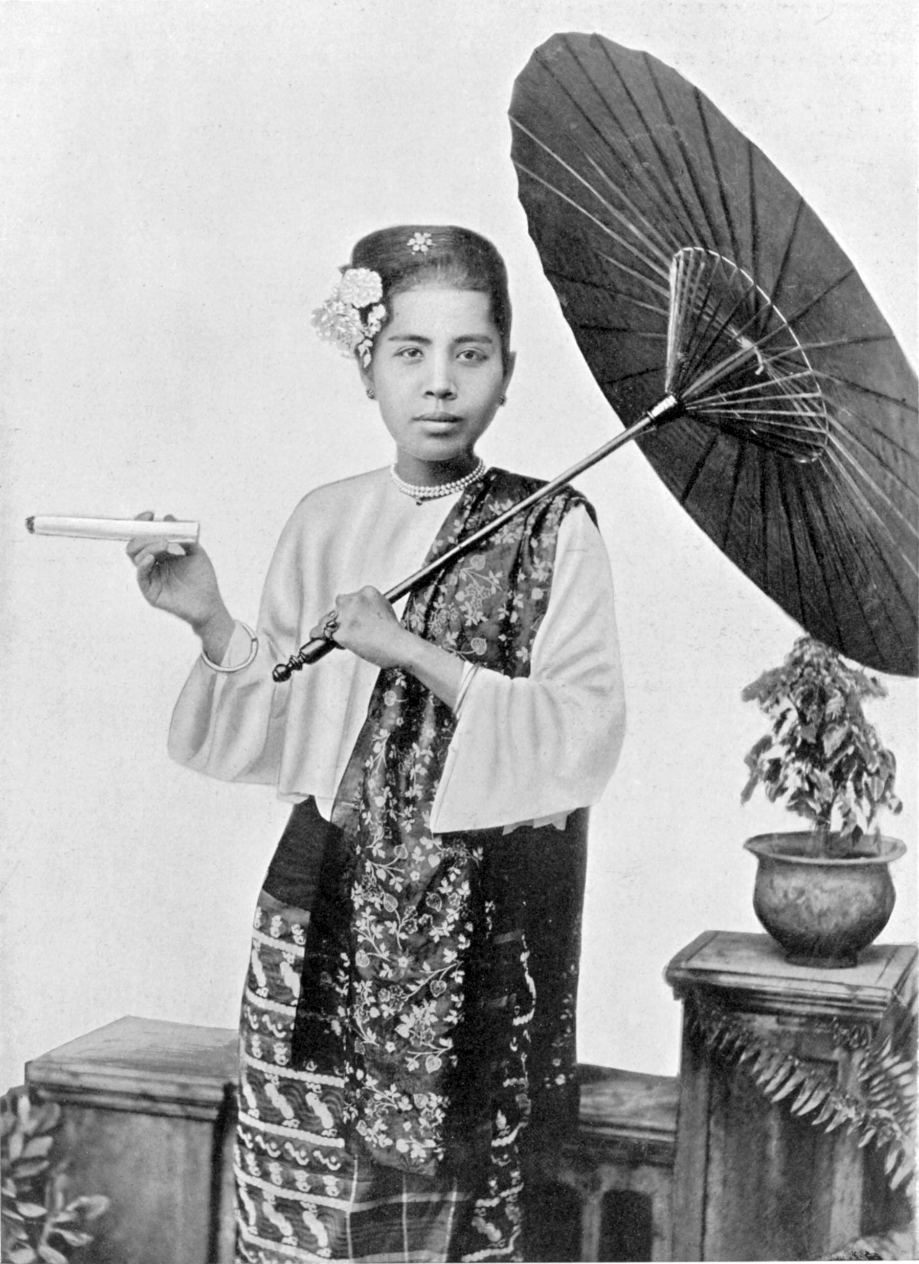 A Burmese lady.